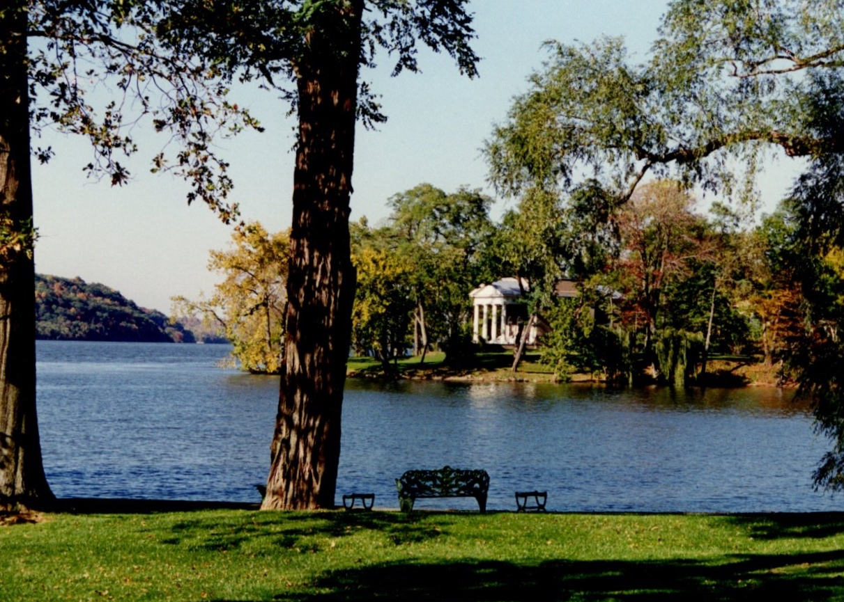 Garden Pavilion at Edgewater, Barrytown, New York.